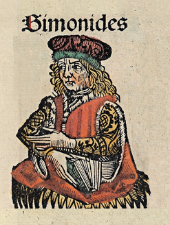 Woodcut from the Nuremberg Chronicle